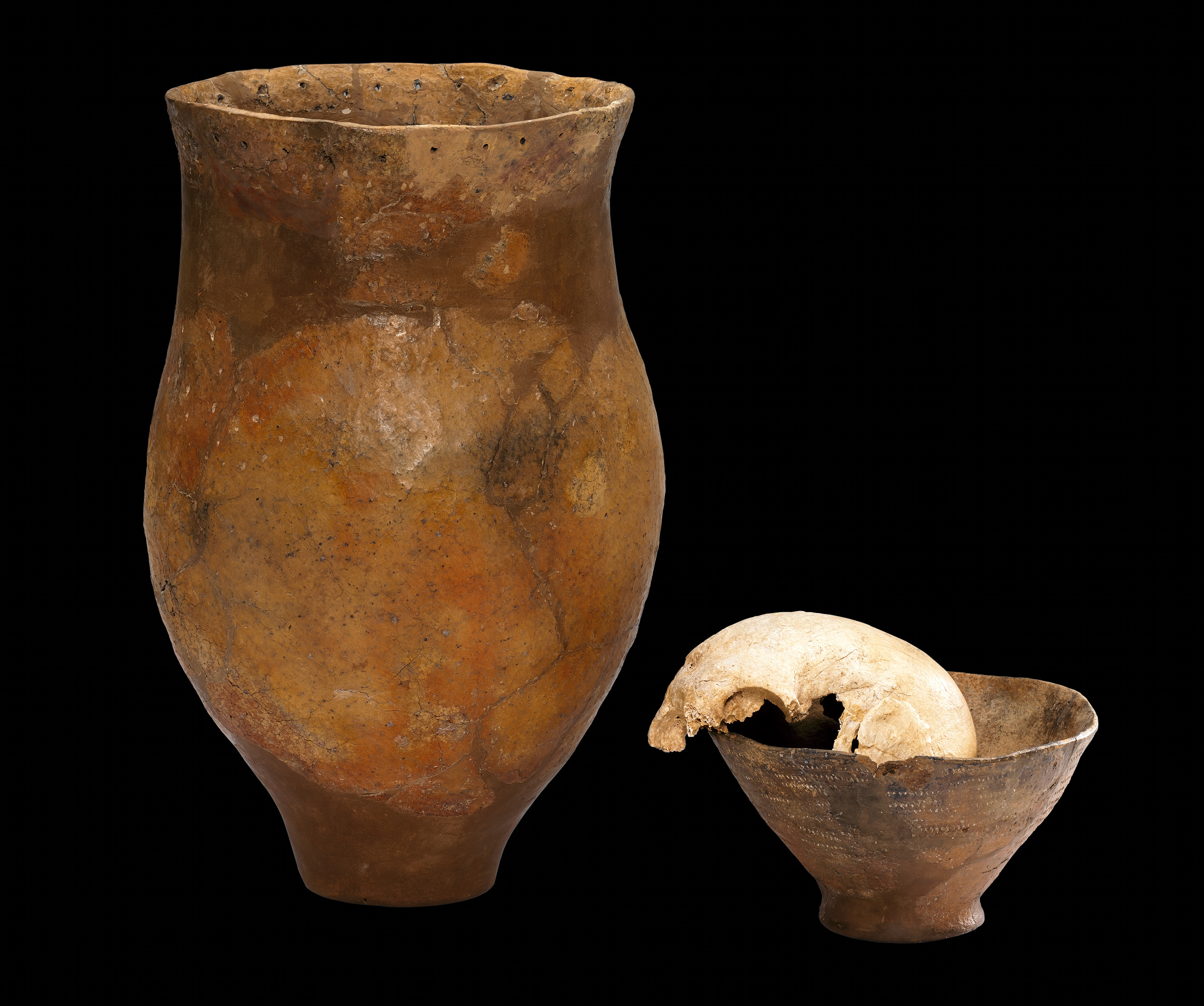 Remains of a human skull in a small bowl, covered with a gigant beaker. circa 2200 BC date QS:P,-2200-00-00T00:00:00Z/9,P1480,Q5727902 Neolithicera QS:P2348,Q36422.